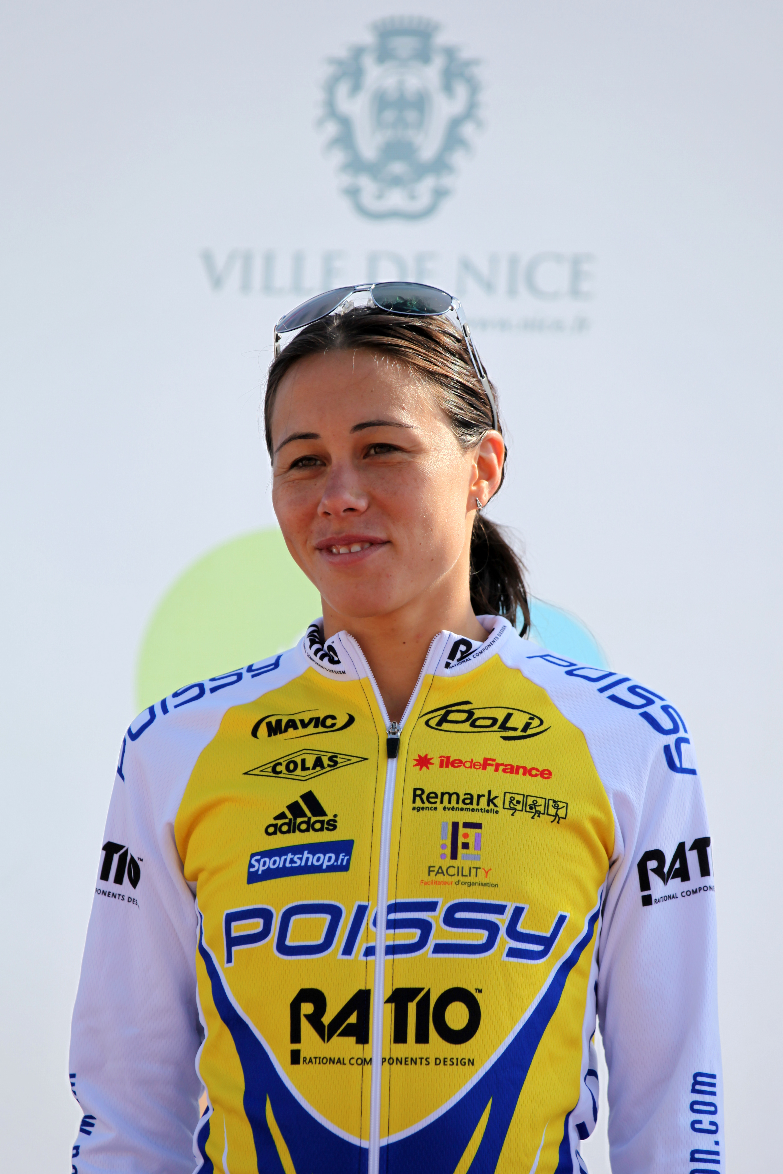 Andrea Hewitt at the Grand Final of the French Club Championship Series (Grand Prix de Triathlon, Lyonnaise des Eaux) in Nice (Nizza) 2012.